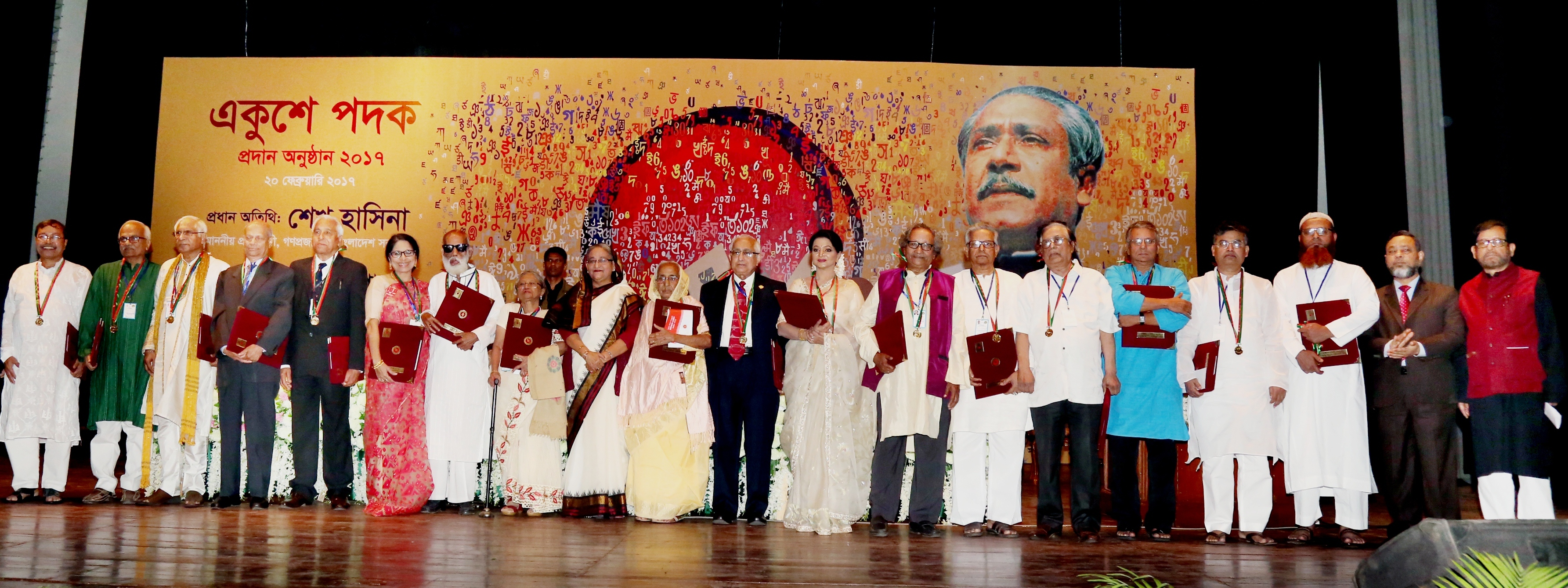 Photo of Hon'ble Prime Minister of Bangladesh with Awardees of Ekushey Padak, 2017